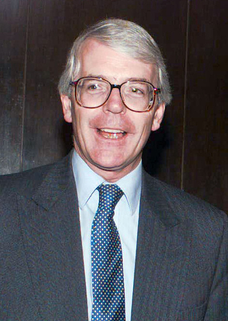 British Prime Minister John Major in the Terme Hotel on Ilidza Compound in Sarajevo, Bosnia and Herzegovina, during Operation Joint Endeavor.